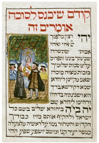 Jewish Prayer-Yehi Ratchon